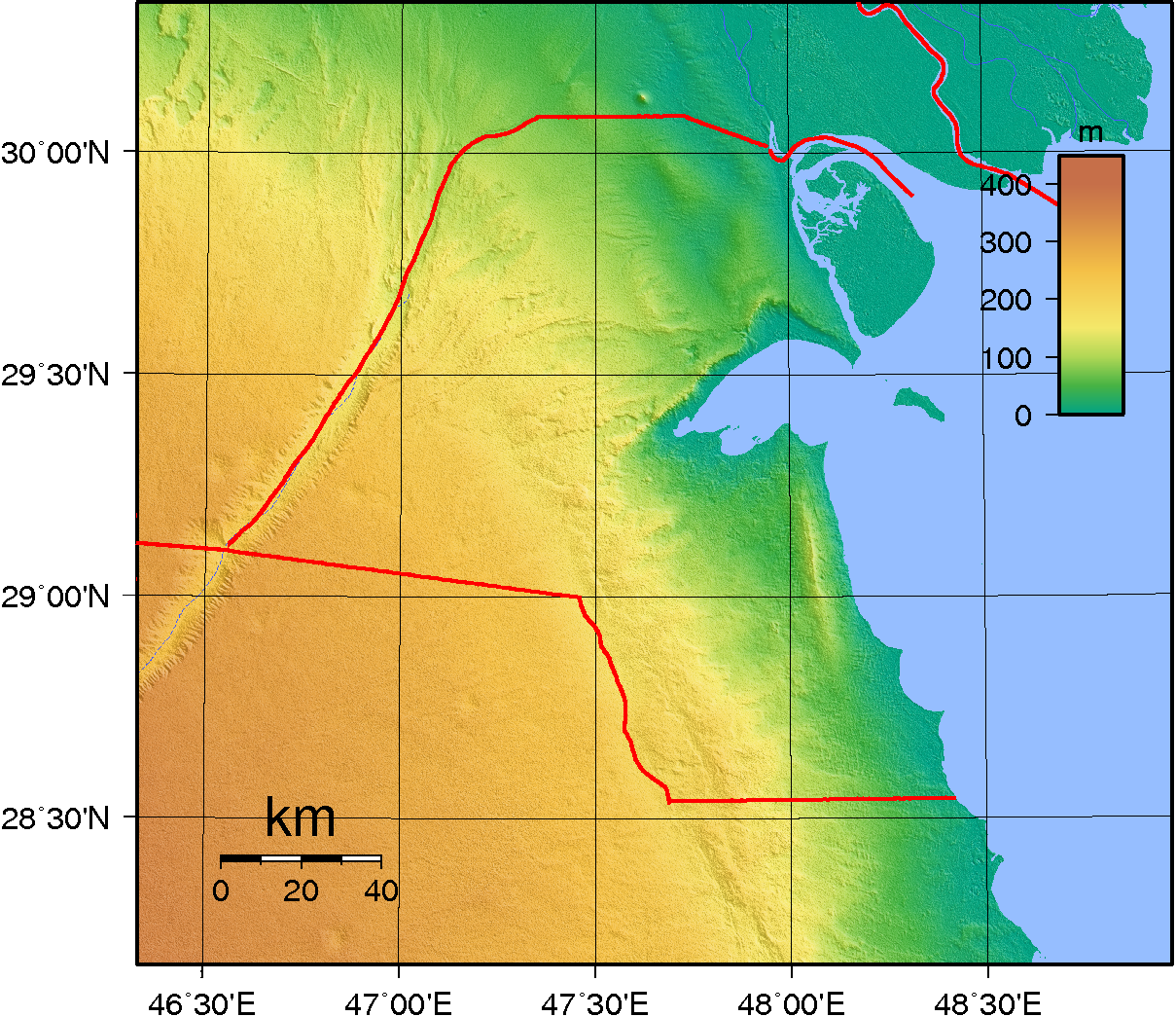 Topographic map of Kuwait. Created with GMT from SRTM data.